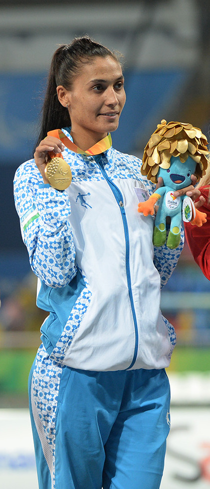 Irada Aliyeva. Athletics at the 2016 Summer Paralympics – Women's javelin throw F13